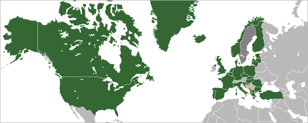 Montenegro in relation to NATO member counties